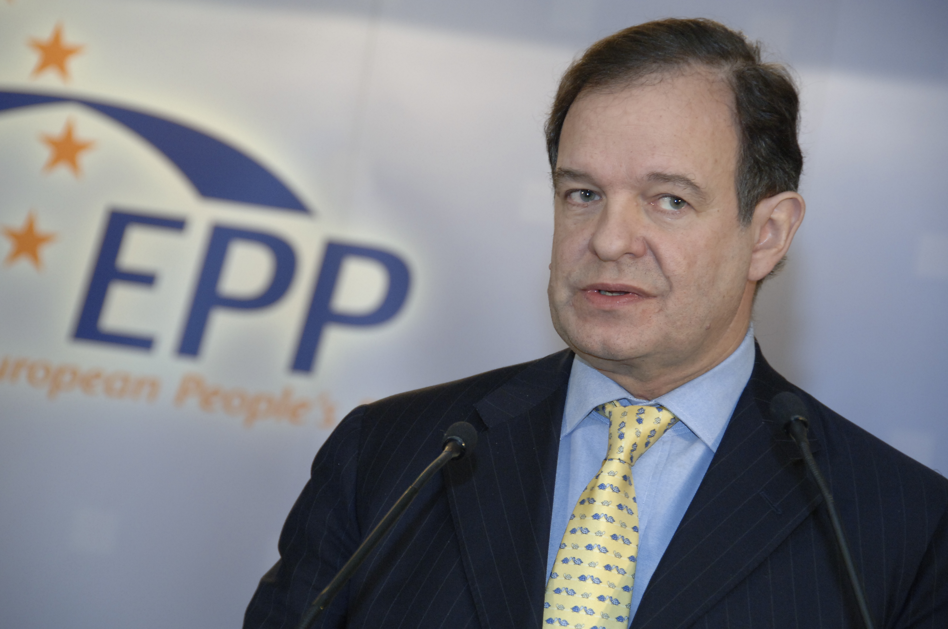 EPP CONVENTION ON CLIMATE CHANGE IN MADRID (6-7 FEBRUARY 2008)